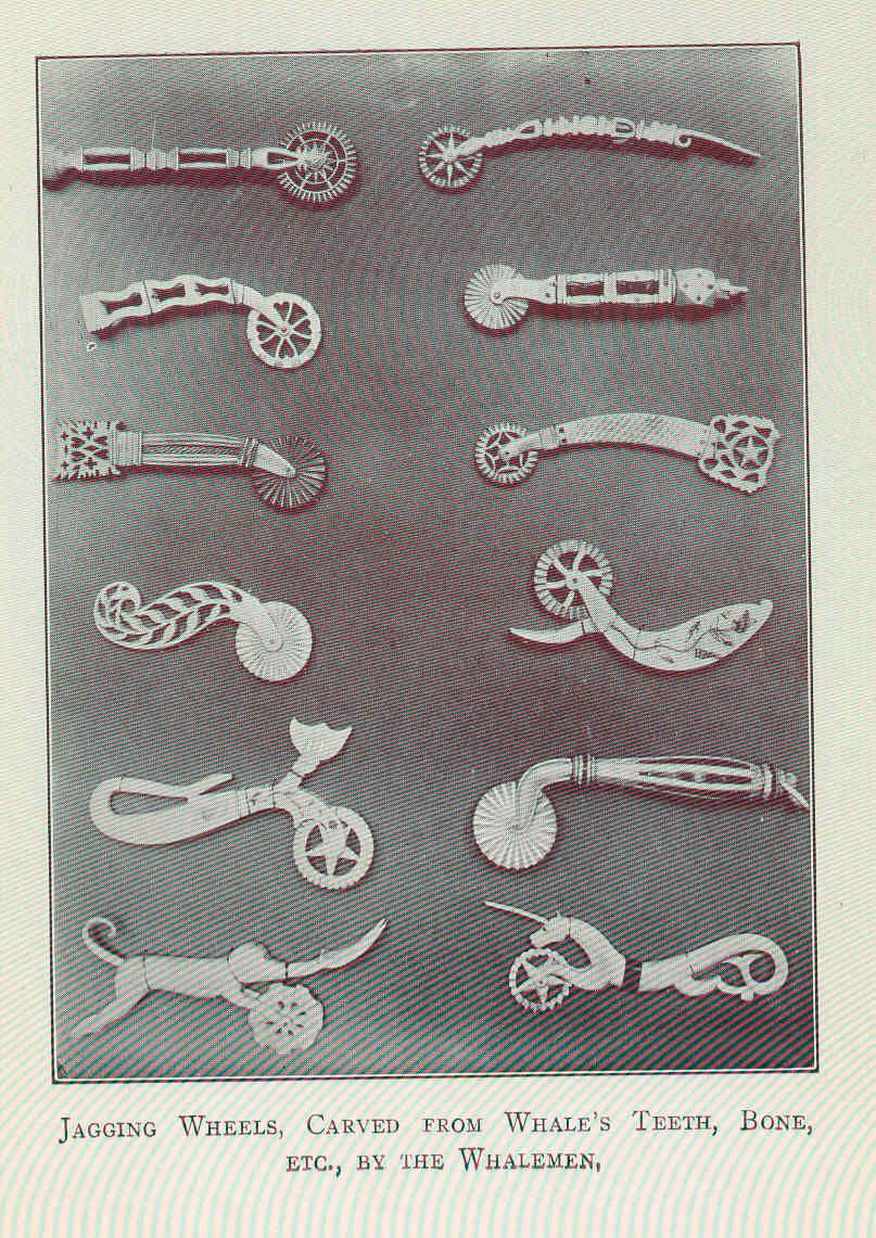 Jagging Wheels, carved from Whale's Teeth, Bone, Etc., by the Whalemen Subject: Kitchen utensils, Bone carving Tag: Aquatic Mammals